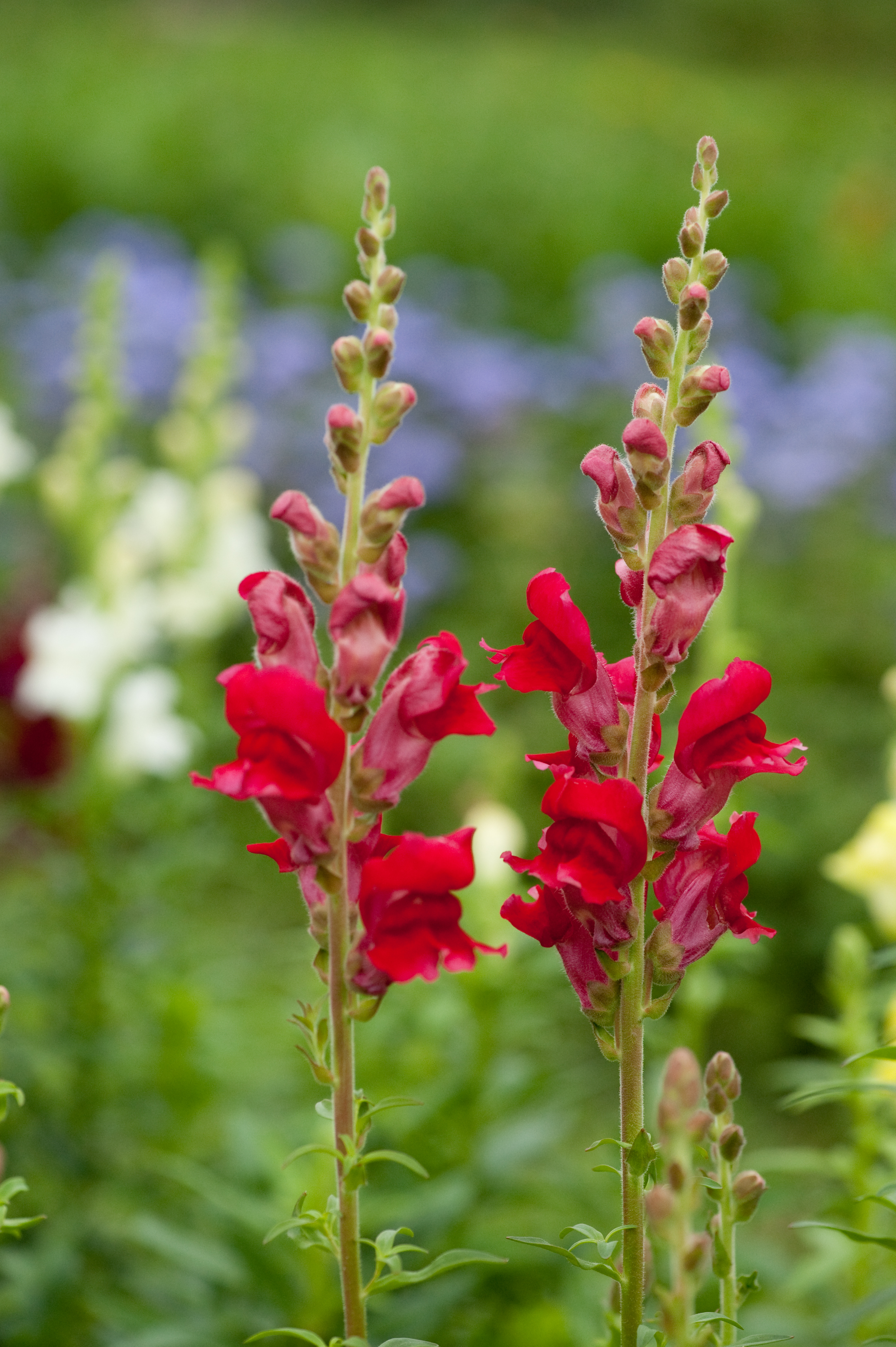 Ageratum is in the background.